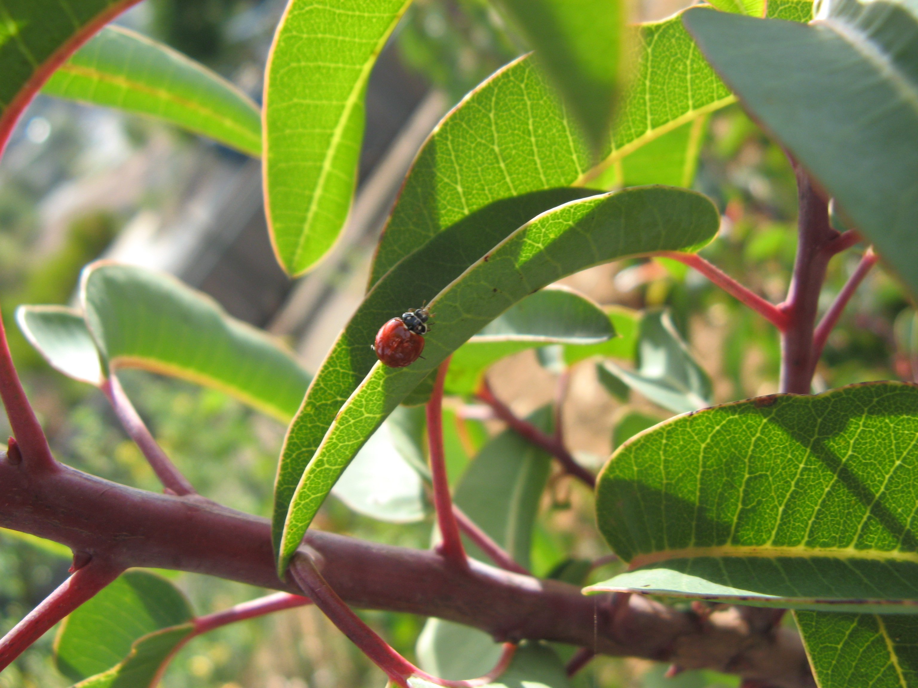 Malosma laurina — Laurel sumac, twig and leaves. This ladybug (probably genus Hippodamia, possibly Hippodamia variegata) is on the leaf of a Laurel sumac. Such ladybugs are about 6 mm (1/4") long, so this one roughly sets the scale of the photograph.